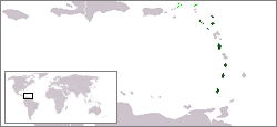 Map of the Organization of Eastern Caribbean States. Full member states are in Dark Green, Associate member states are in Light Green.